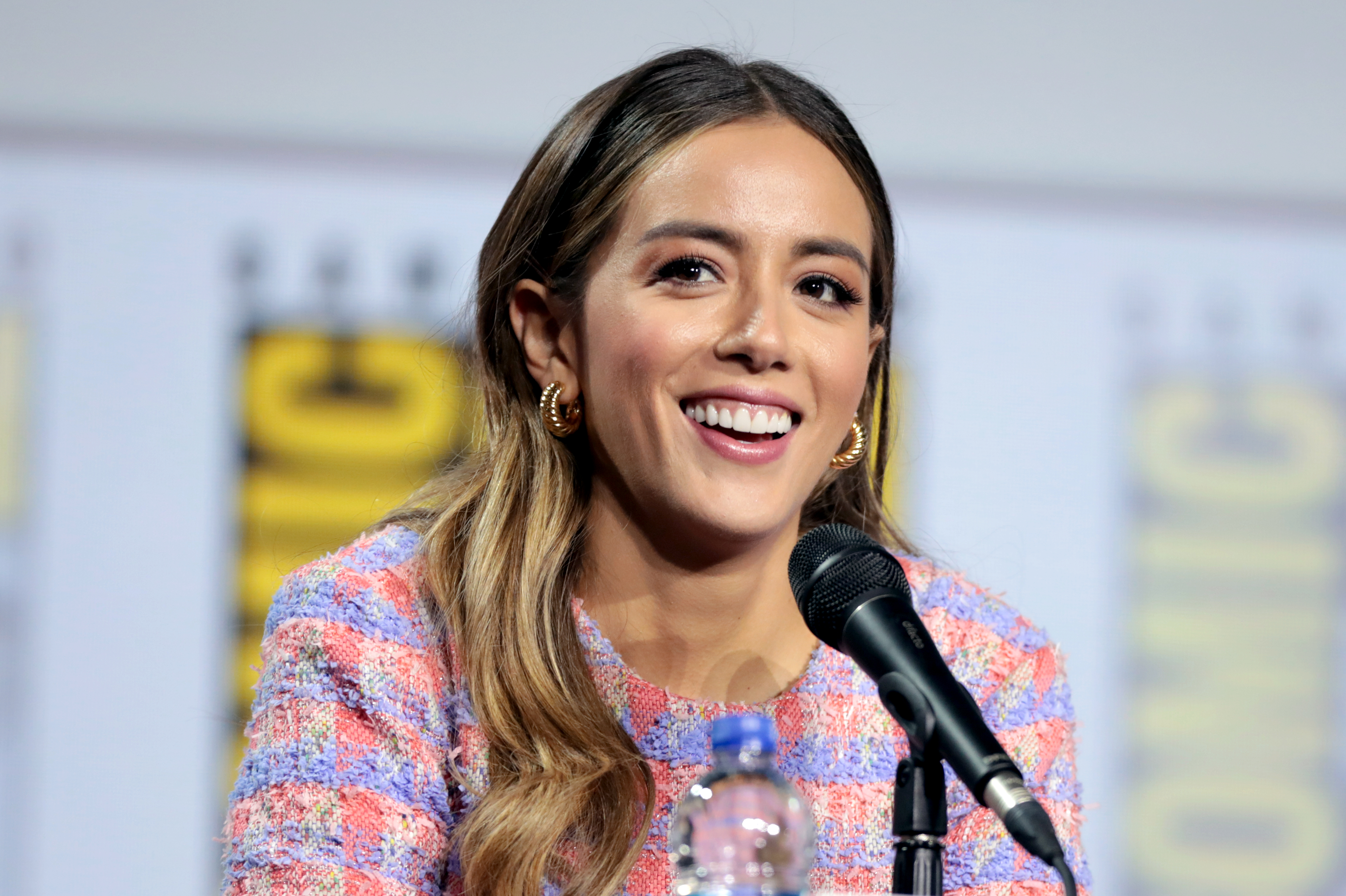 Chloe Bennet speaking at the 2019 San Diego Comic Con International, for "Marvel's Agents of S.H.I.E.L.D.", at the San Diego Convention Center in San Diego, California.